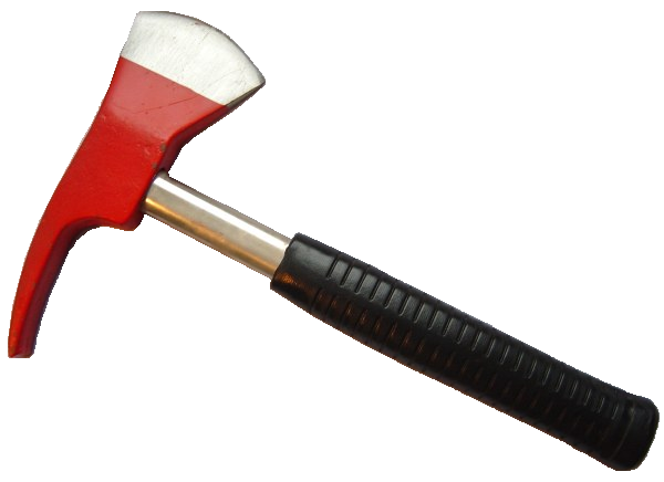 hatchet, small axe used by german firefighters